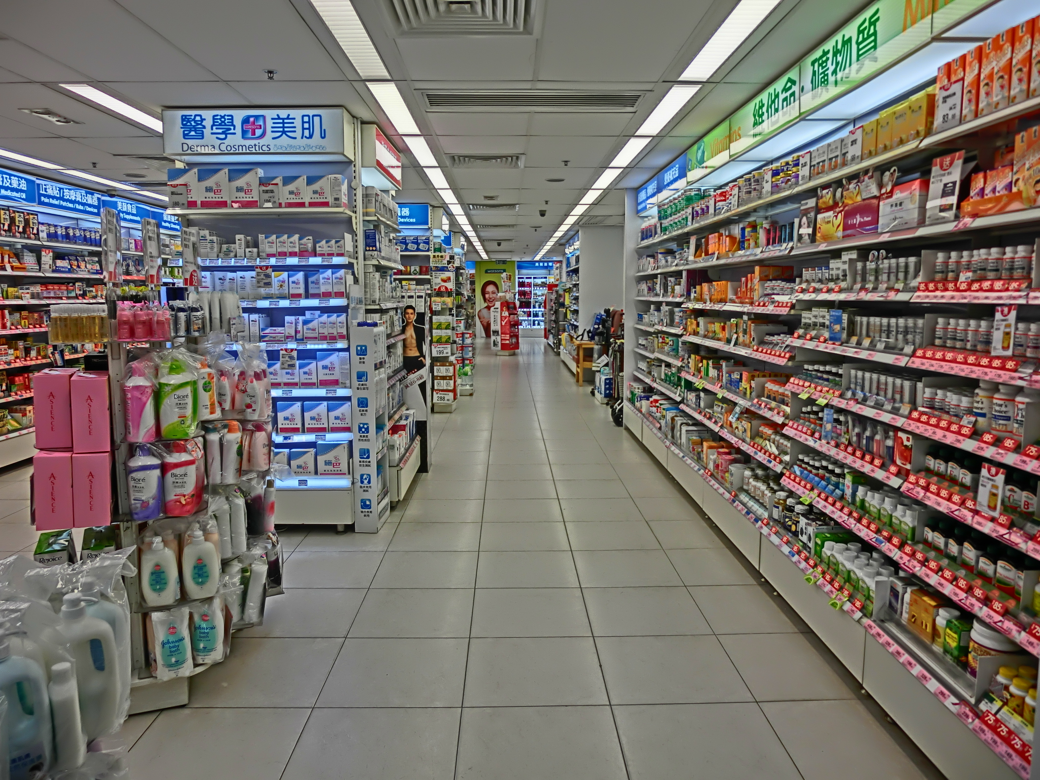 銅鑼灣 銅鑼灣道, Tung Lo Wan Road, Causeway Bay, Hong Kong